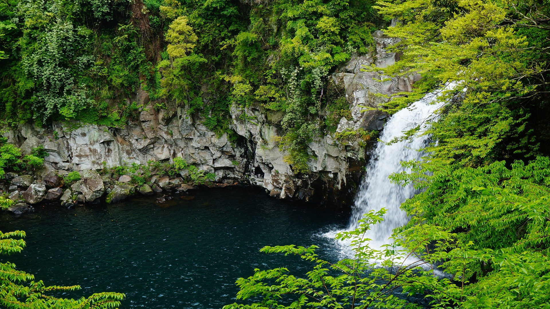 Jeju-island-falls-cheonjeyeon Sony Nex-F3 E 18-55mm F3.5-5.6 OSS 18.0mm · ƒ/10.0 · 1/60s · ISO 200 유형 JPG 해상도 4912×2760 만든 날짜 2016년 4월 23일 업로드 날짜 2016년 8월 18일